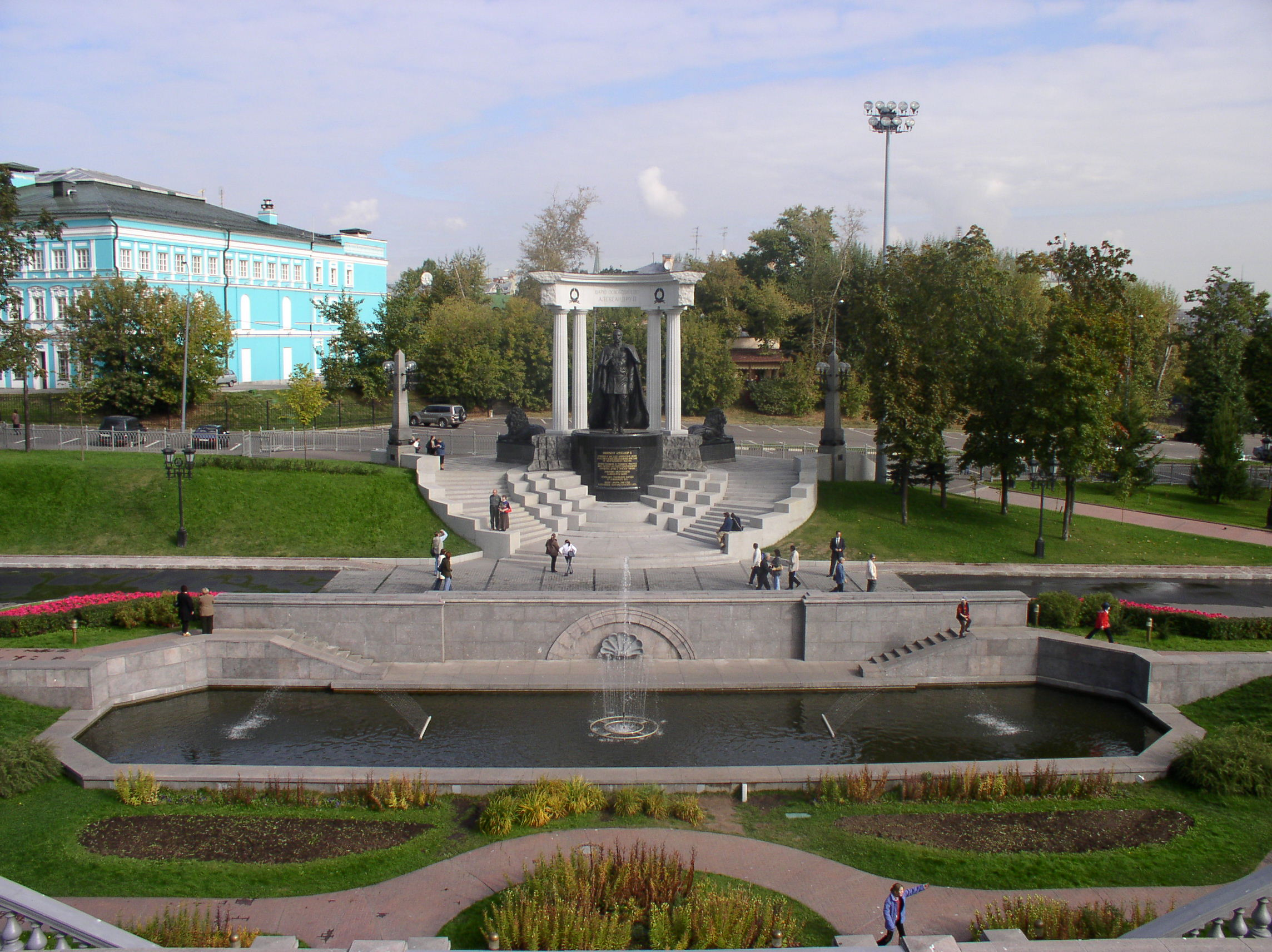 Monument to Alexander II of Russia. Moscow, Russia.